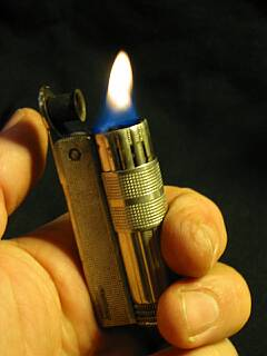 IMCO Triplex Super lighter